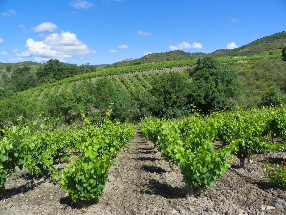 Vineyards in the French wine region of Corbières AOC in the Languedoc